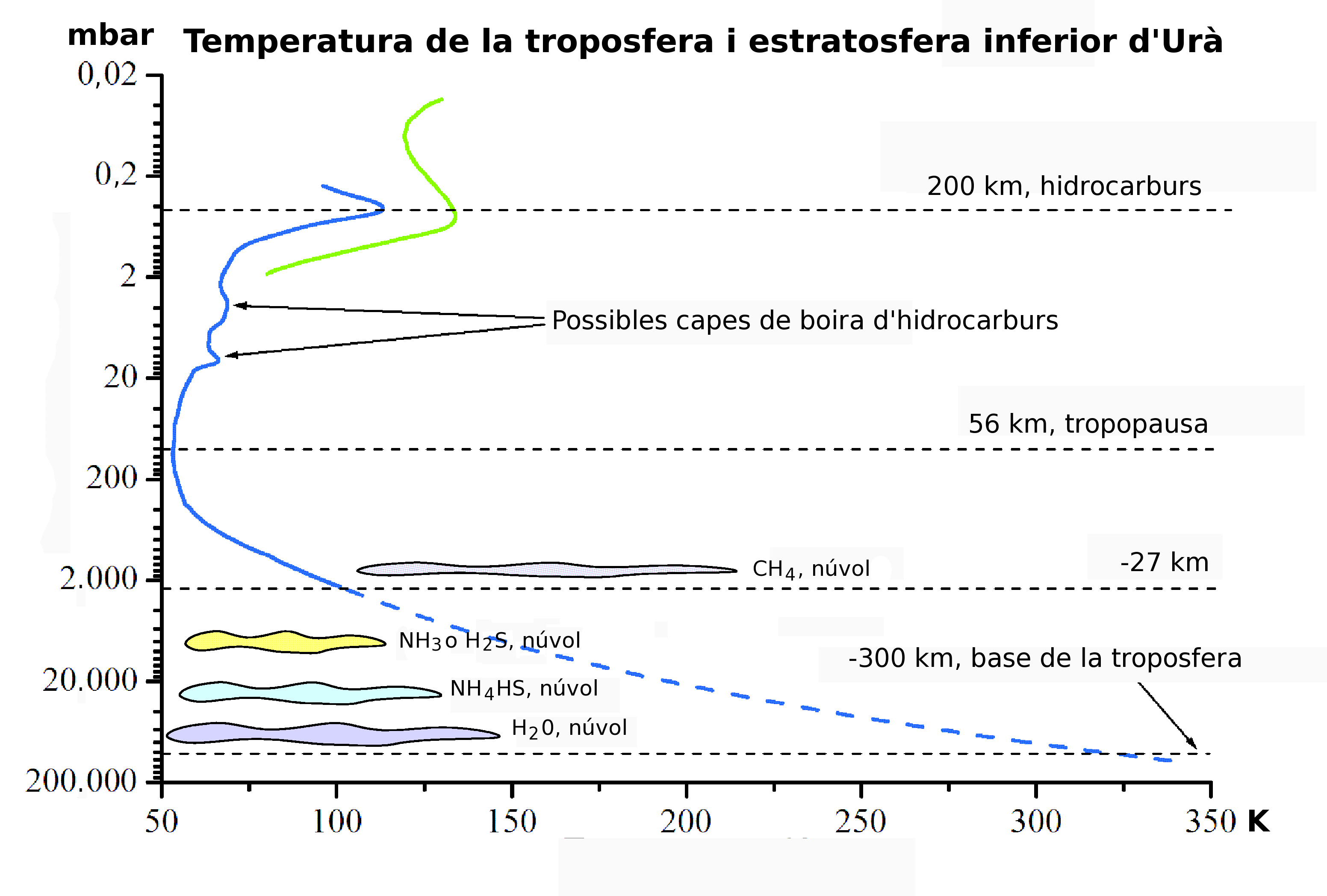 This graph shows temperature profile in the troposphere and in the lower stratosphere of Uranus. Heights are also indicated. *The blue curve is from Lindal et al.[1]. *The green curve is from Bishop et al.[2] *The dashed blue curve is an extrapolation of the 1987 Lindal et al. data[1] using a constant lapse rate of 0.82 K/km. *The graph also shows locations of the main cloud and haze layers according to 1990 Bishop et al.[2], Atreya et al.[3] and dePater et al. [4] ==References== ↑ a b Lindal, G.F., Lyons, J.R., Sweetnam, D.N., Eshleman, V.R., Hinson, D.P., Tyler, G.L., 1987. The atmosphere of Uranus: Results of radio occultation measurements with Voyager 2. J. Geophys. Res. 92, 14987â€“15001 (Table 1); ↑ a b Bishop, J.; Atreya, S.K.; Herbert, F.; and Romani, P. (1990). "Reanalysis of Voyager 2 UVS Occultations at Uranus: Hydrocarbon Mixing Ratios in the Equatorial Stratosphere", Icarus 88: 448â€“463 (Table 1). ↑ Atreya, S.; Egeler, P.; Baines, K. (2006). "Water-ammonia ionic ocean on Uranus and Neptune?", Geophysical Research Abstracts 8: 05179 ↑ dePater, Imke; Romani, Paul N.; Atreya, Sushil K. (1991). "Possible Microwave Absorbtion in by H2S gas Uranusâ€™ and Neptuneâ€™s Atmospheres", Icarus 91: 220â€“233.